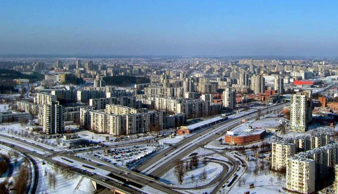 Vilnius - capital of Lithuania (Europe)